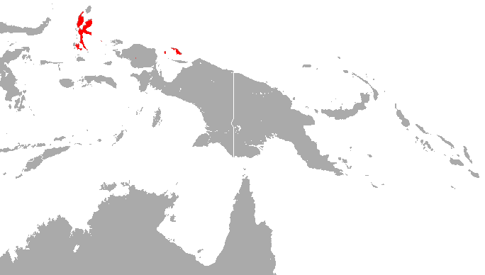 Biak Roundleaf Bat (Hipposideros papua) range